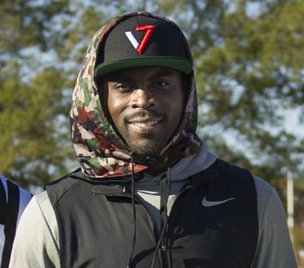 Fox Sports analyst and former NFL quarterback, Michael Vick (center) poses with referees during a flag football game held on board Naval Station Norfolk. Fox Sports coverage across the Veterans Day weekend provides the opportunity to showcase for the American people the professionalism and commitment of the men and women of the U.S. Navy.